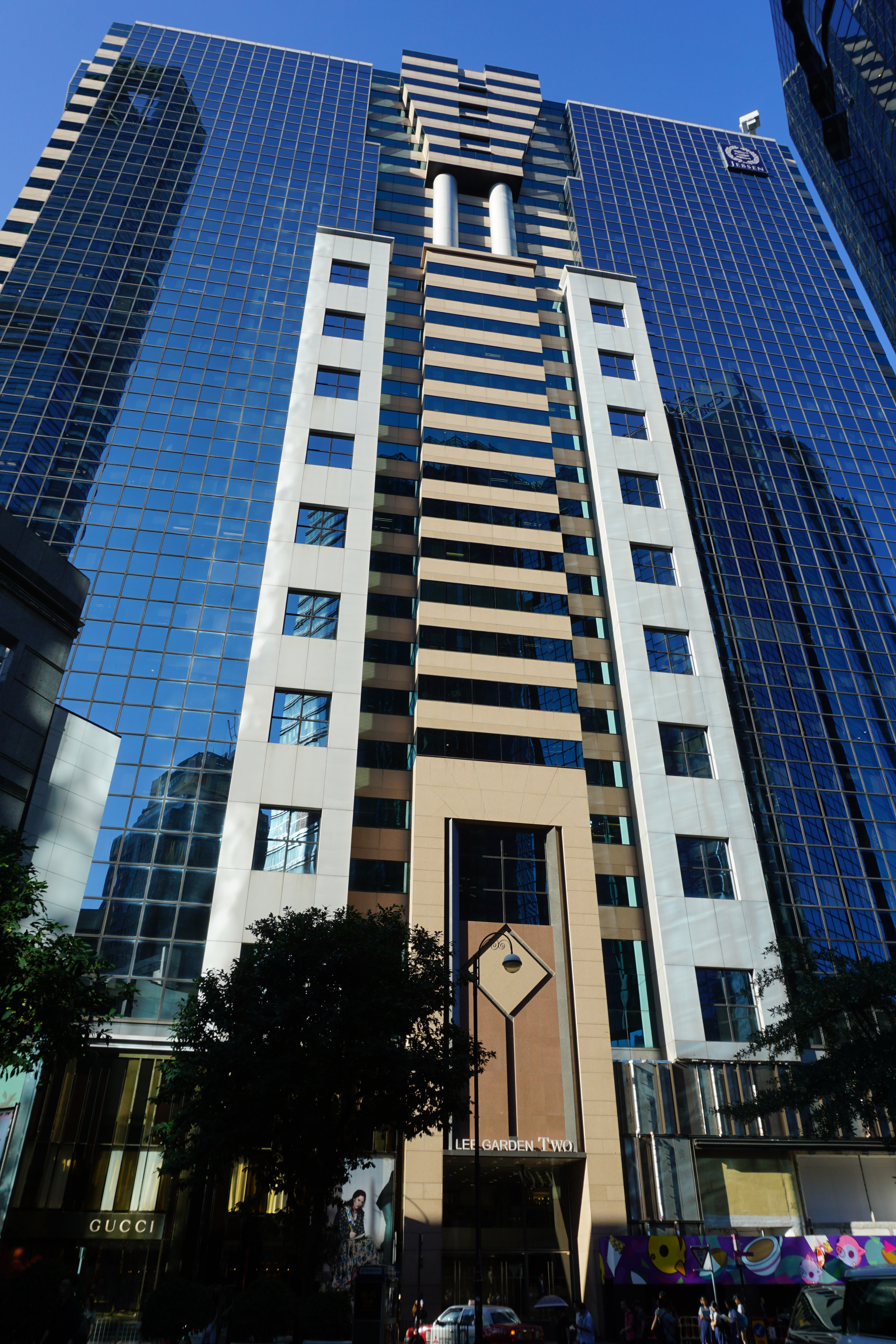 Lee Garden Two in Causeway Bay, Hong Kong.